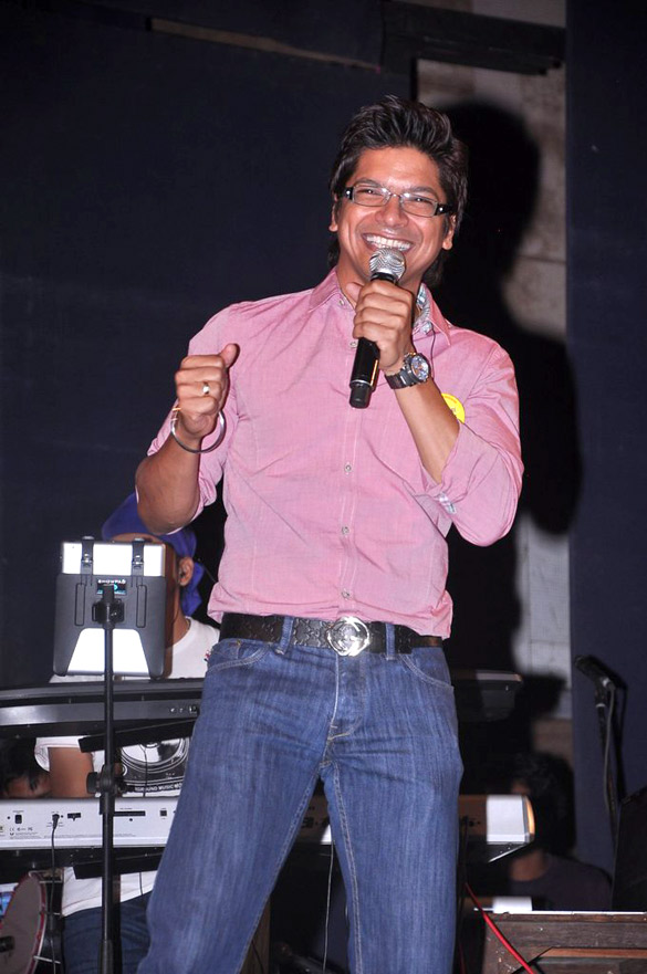 Shaan12